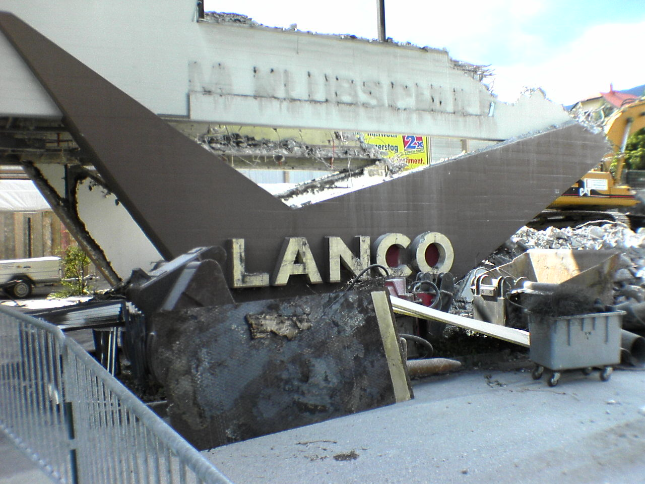 Entrance area of former watch making factory Lanco in Langendorf SO, Switzerland, being demolished in July 2008. Since 1977, the Lanco building is used for a Migros shopping centre. The modernisation and enlargement of this shopping centre (2008-2010) brought to light (and destroyed) this LANCO logo cast in concrete, which was covered before. Note also the props in the shape of watch hands.